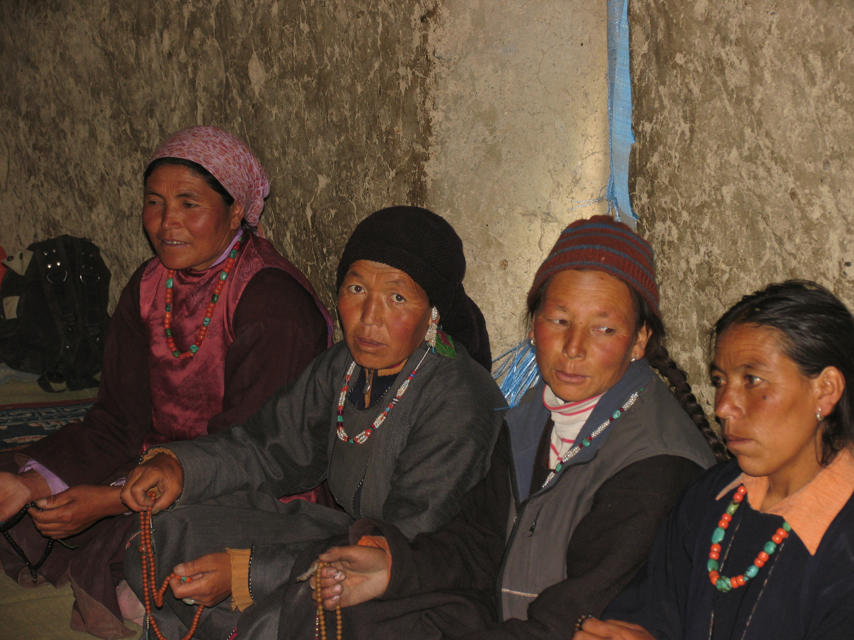 Rock cut sculptures Mulbag